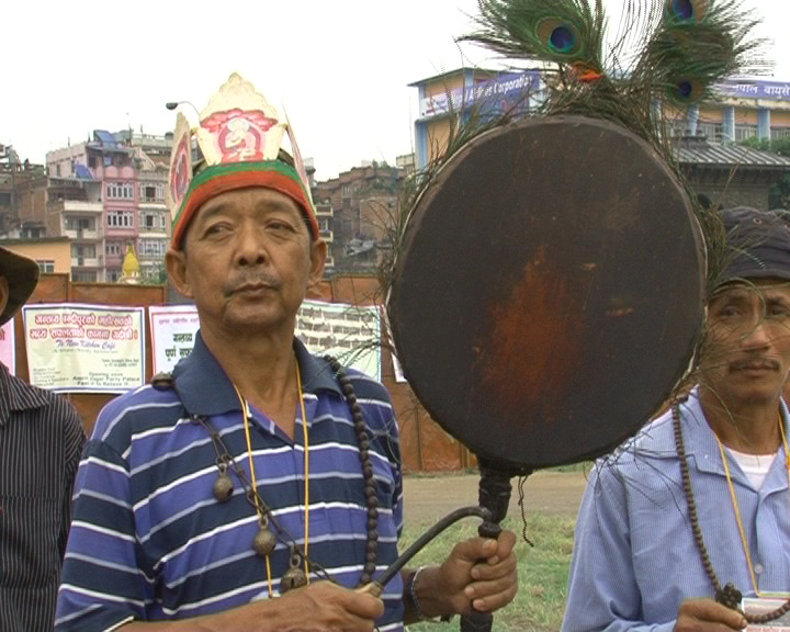 Nepali musical instrument (ढ्याङ्ग्रो)